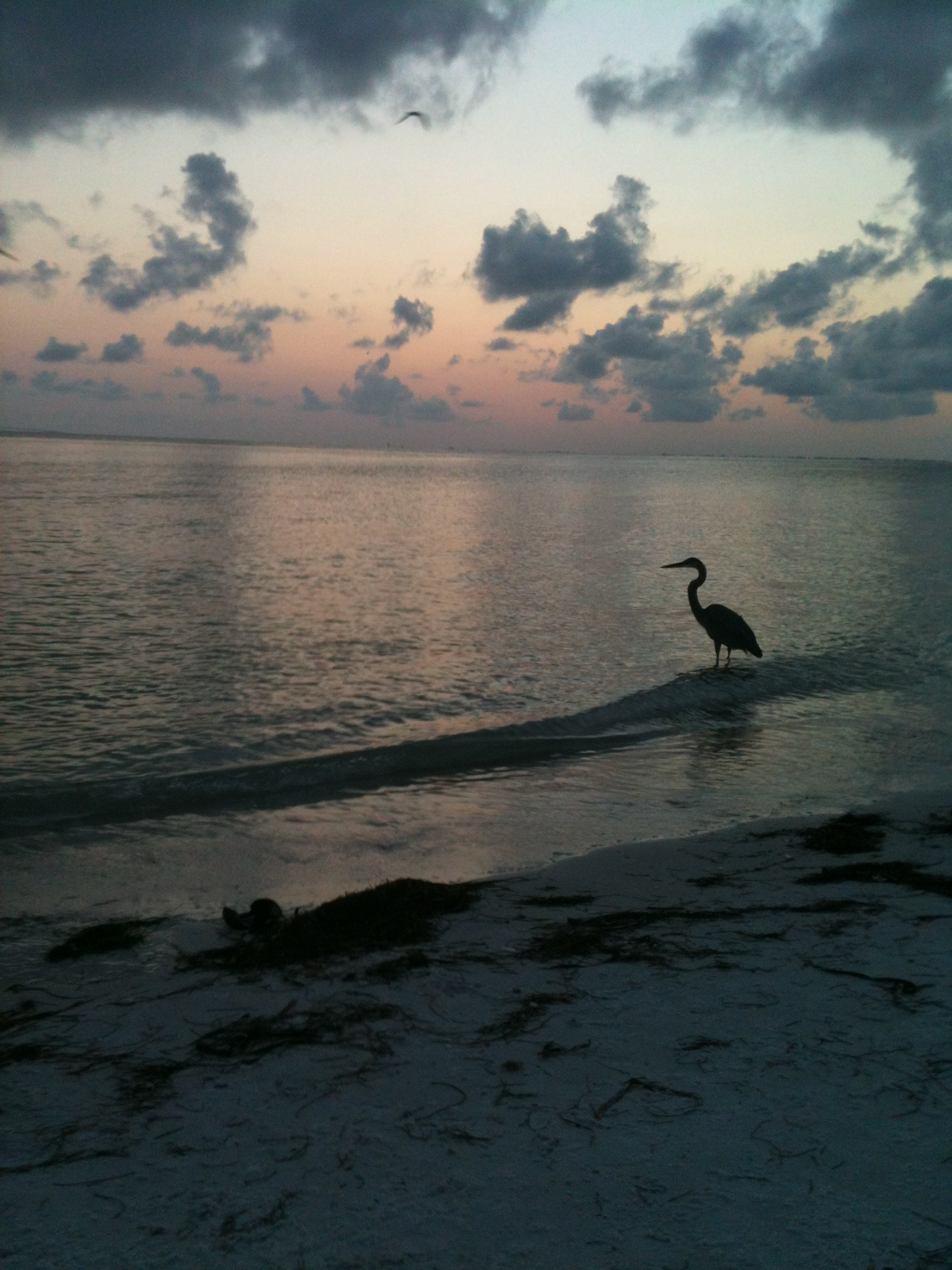 The sun rises over Tampa Bay. Anna Maria, FL.